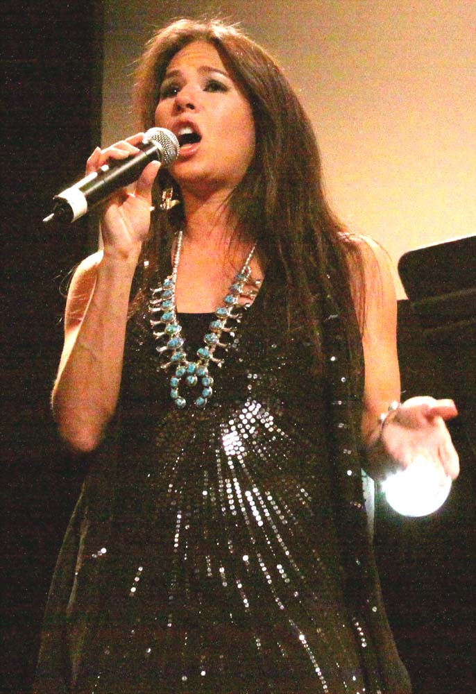 Native American Singer Jana Mashonee appears at the Poncan Theatre in Ponca City, Oklahoma on December 4, 2010. Photo Credit: Hugh Pickens Note: Any use of this photo or any derivative work using this photo in print or on the web must include as an attribution, a photo credit to Hugh Pickens as indicated above and, if used on the web, must include a link to the web site of Hugh Pickens at